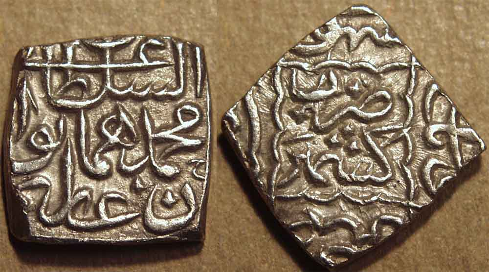 Silver sasnu issued in Kashmir by Haidar Dughlat in the name of the Mughal emperor Humayun, some time duriing 1546-1550.